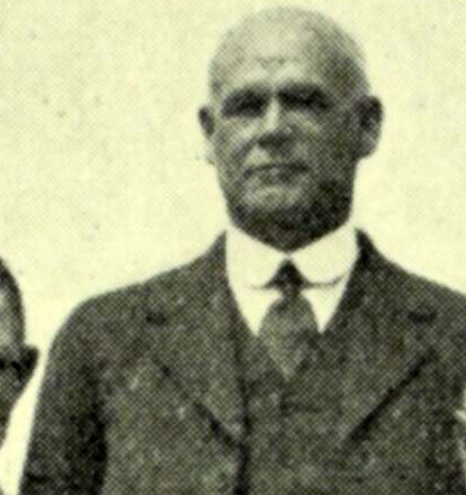 David Bruce Elphinstone, owner of Strathnairn Homestead in the Australian Capital Territory